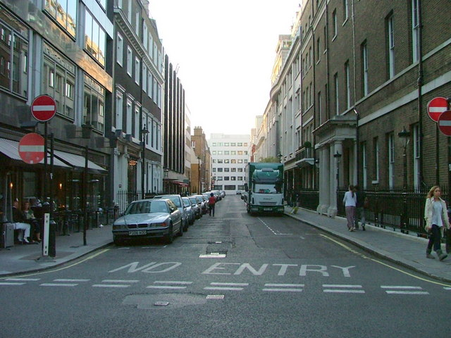 Old Burlington Street W1 Off Burlington Gardens.